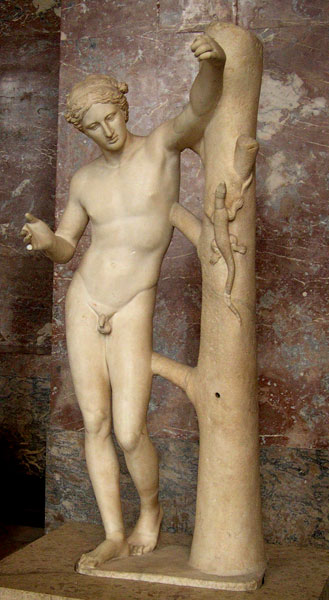 Roman copy from the 1st–2nd centuries AD after a Greek original from the 4th century BC.